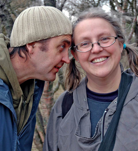 Gro Dahle and Svein Nyhus 2005. Norwegian writers. Photo by their son, Simon Dahle Nyhus.